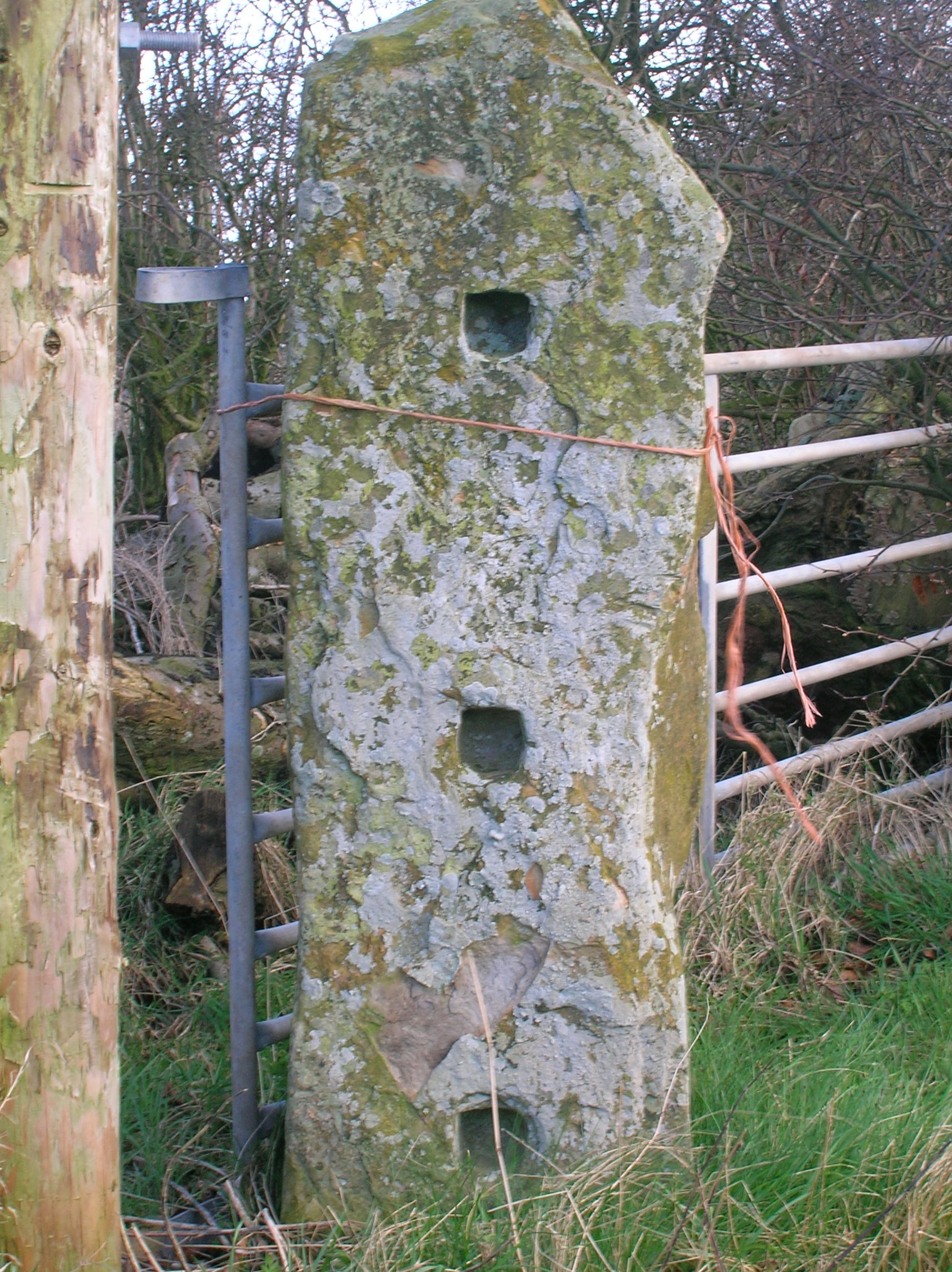 A stile or stoop near Busbiehill in North Ayrshire. 2007.